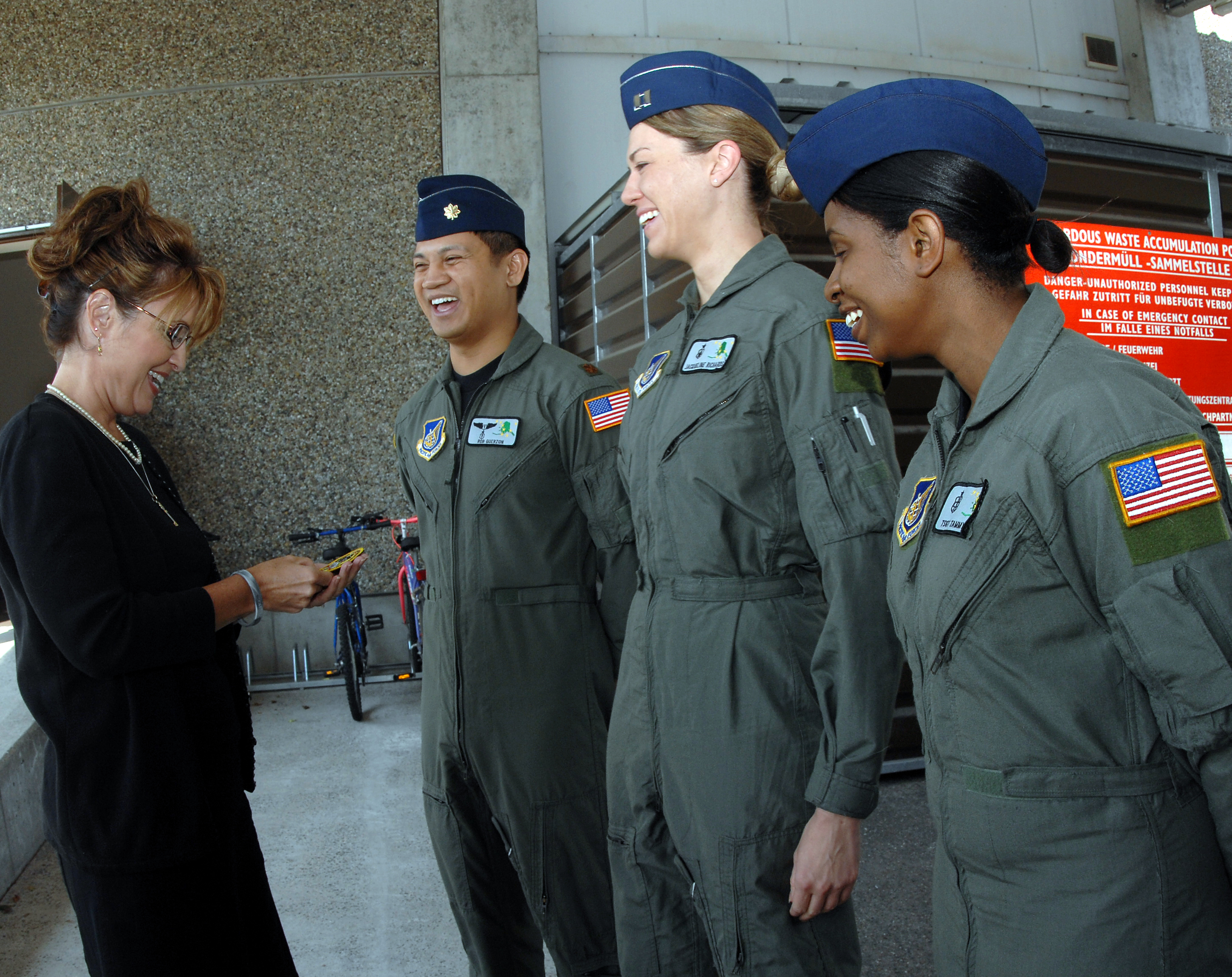 Gov. Sarah Palin receives a squadron patch from Airmen from Alaska that are currently stationed at Ramstein Air Base July 26, 2007. Palin went on to visit wounded Airmen and Soldiers at Landstuhl Regional Medical Center, Landstuhl, Germany.